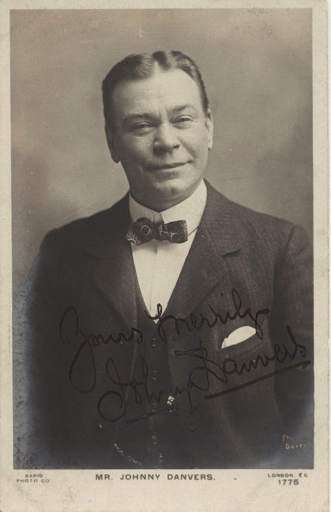 The English comedian and actor Johnny Danvers (1860-1939) in about 1904